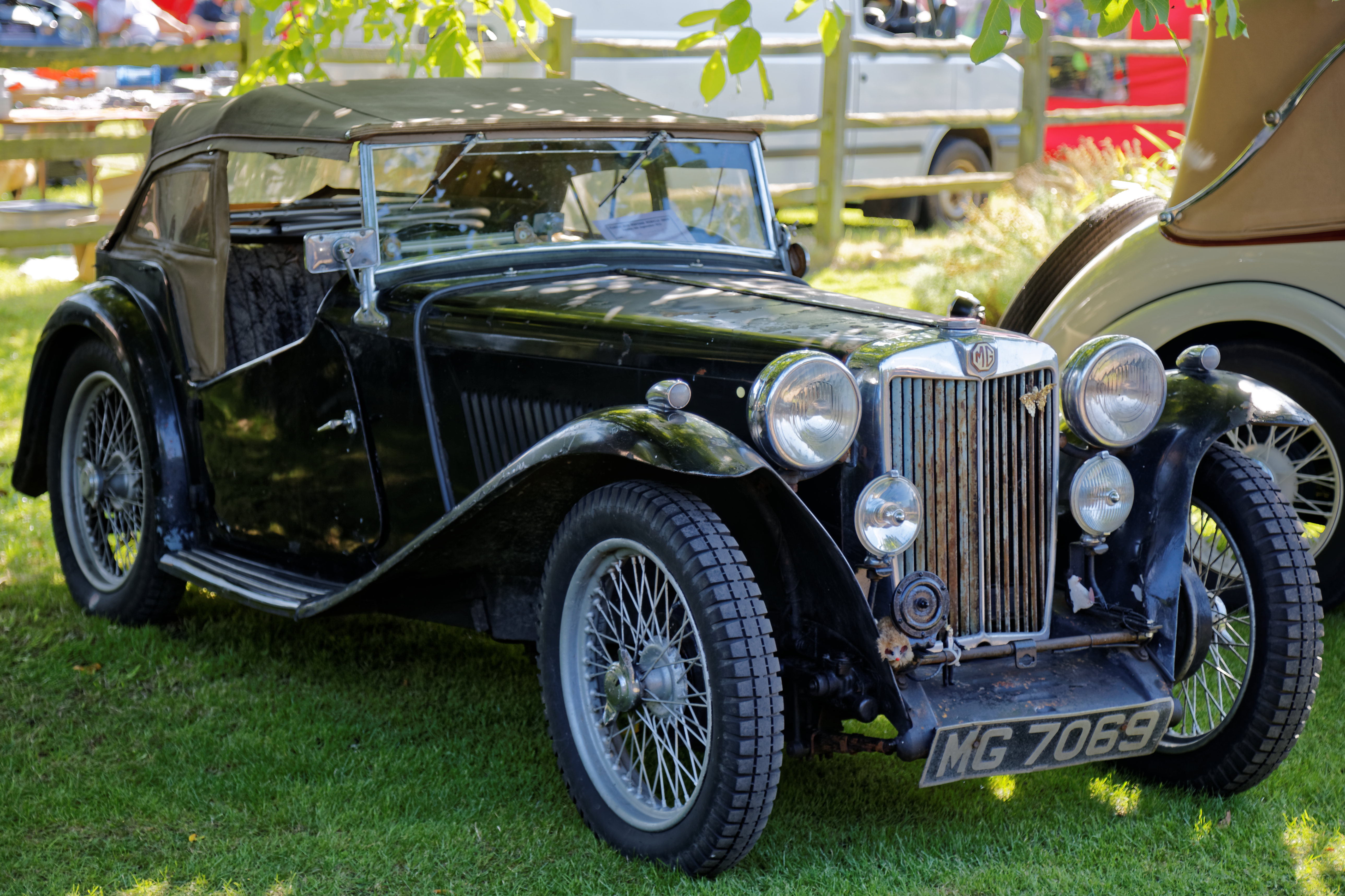 1946 Morris Motors MG Convertable at Capel Manor, Bulls Cross, Enfield, London, England.Software: RAW file lens-corrected, optimized and converted to JPEG with DxO OpticsPro 10 Elite, and likely further optimized and/or cropped and/or spun with Adobe Photoshop CS2.